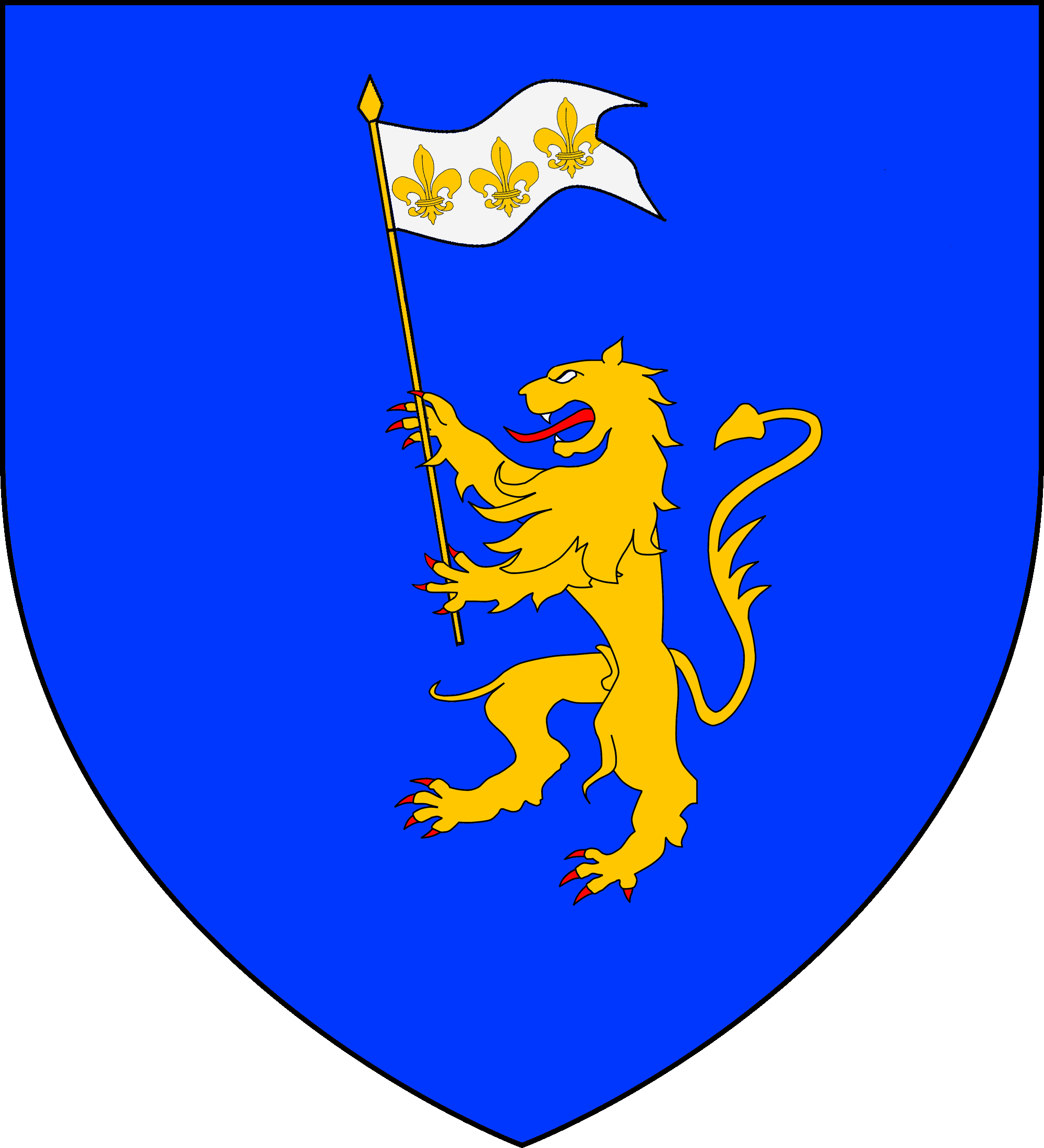 Escudo de armas de la casa Branciforte, príncipes de Butera. (Stemma dei Branciforte)